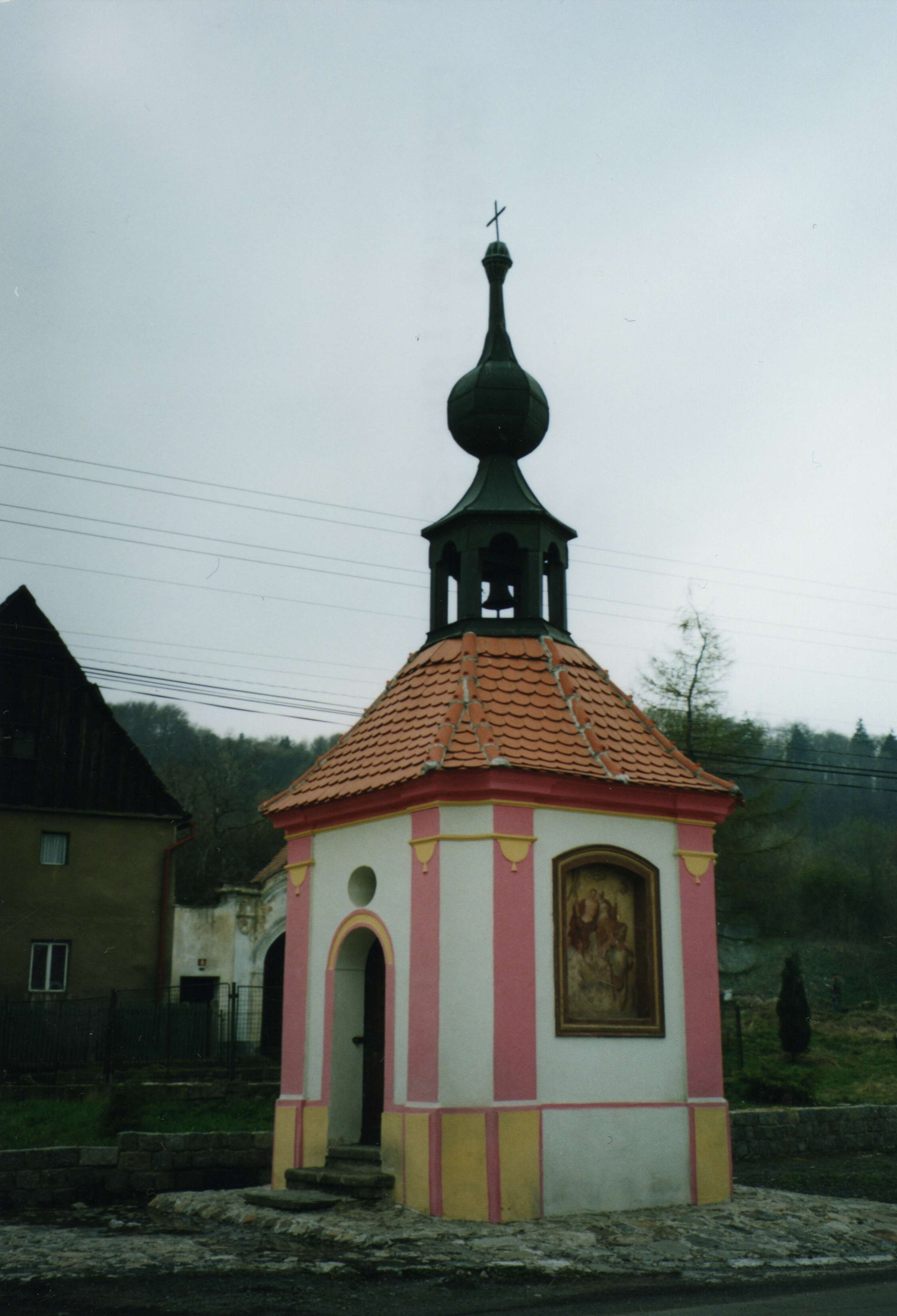 Saint Anthony chapel in Lelov, Žalany, Teplice District, Ústí nad Labem Region, Czech Republic.